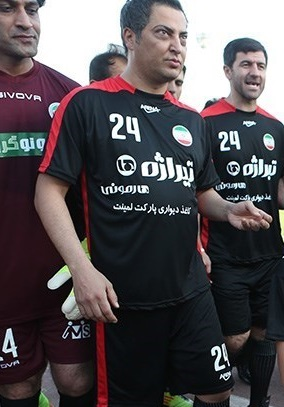 Mehrdad Minavand in Hadi Norouzi's memorial match